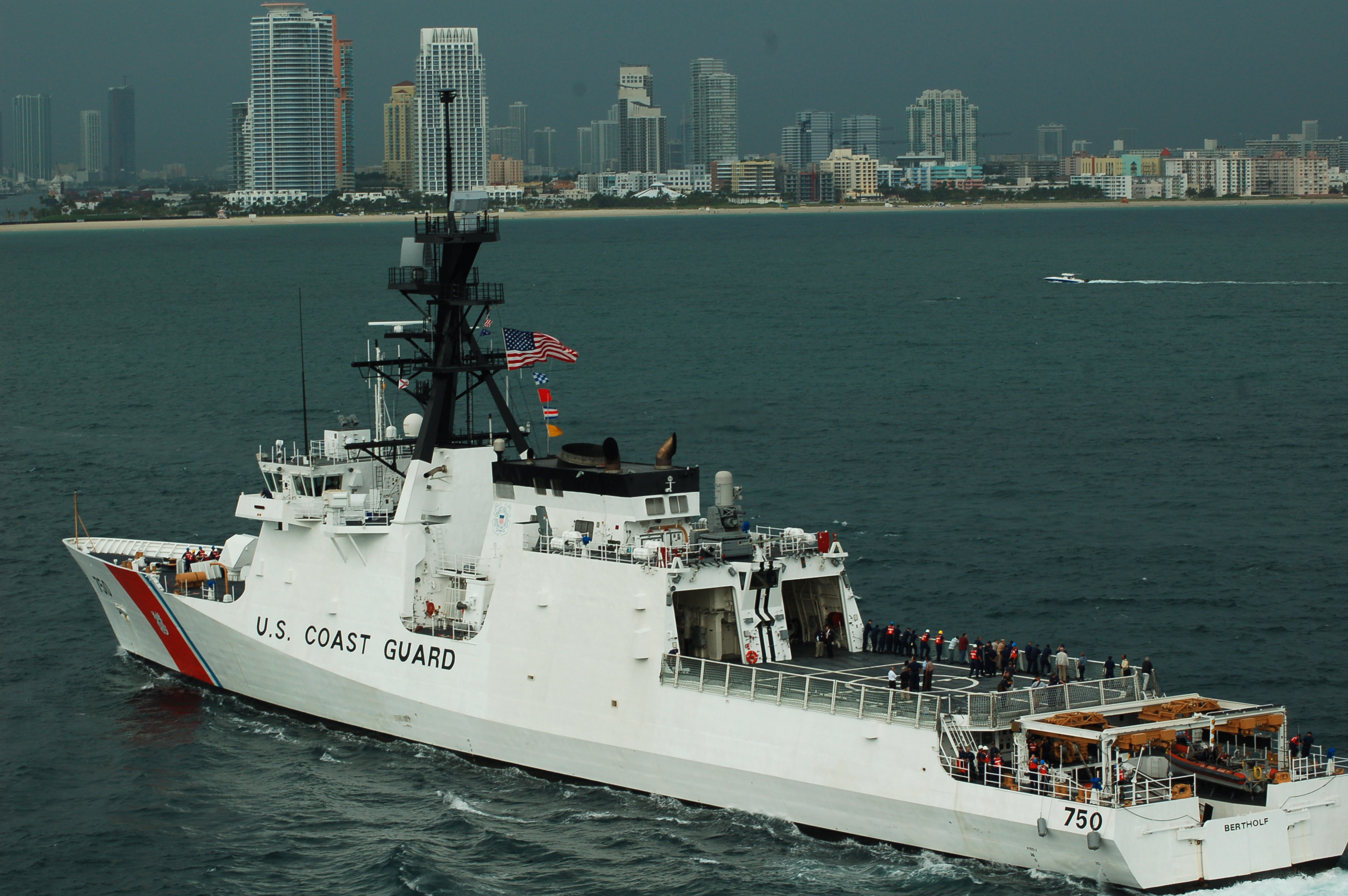 Bertholf Arrives in Miami (For Release) The Coast Guard’s newest cutter Bertholf, a 418-foot National Security Cutter, makes its way into the Port of Miami June 19, 2008. The Bertholf is transiting up the East coast before heading to it’s homeport in Alameda, Calif., for a formal commissioning ceremony scheduled for Aug. 4, 2008. (U.S. Coast Guard photo by Petty Officer 1st Class Krystyna Hannum)